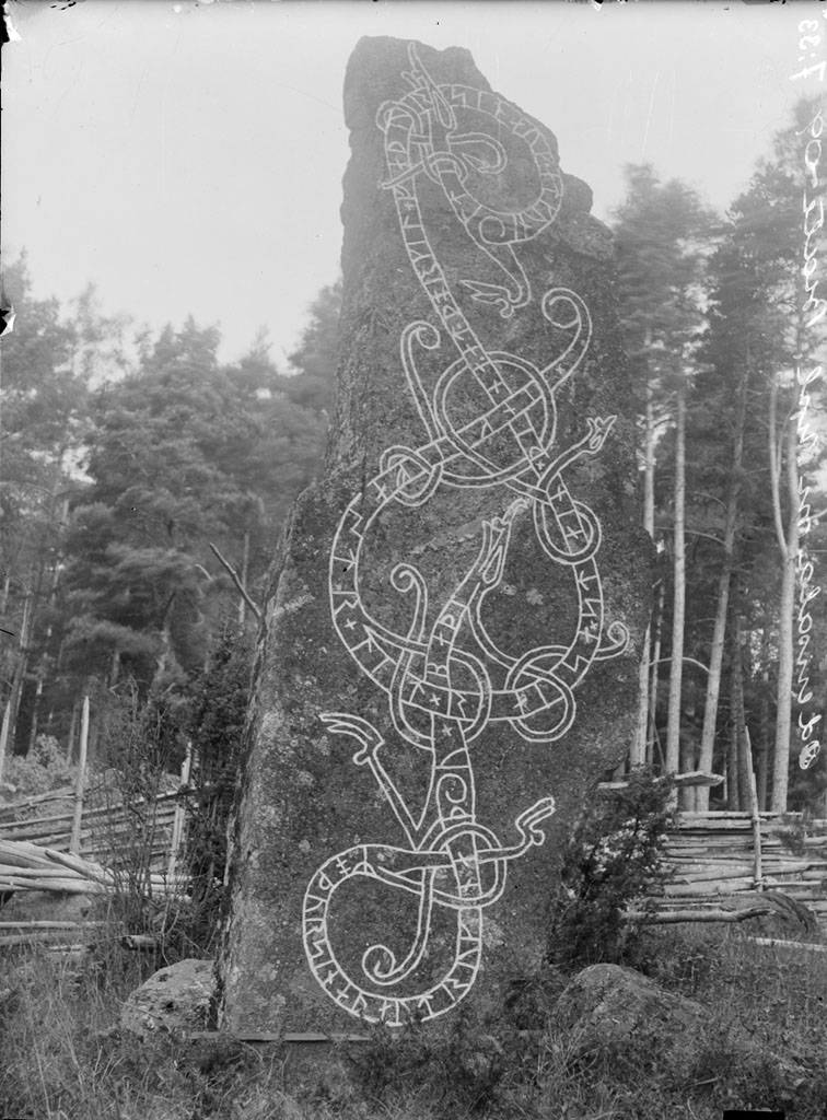 Rune stone (U 455) in Näsby Odensala. The inscription says: "Ingefast raised this stone in memory of Torkel, his father, and in memory of Gunhild, his mother. They both drowned".